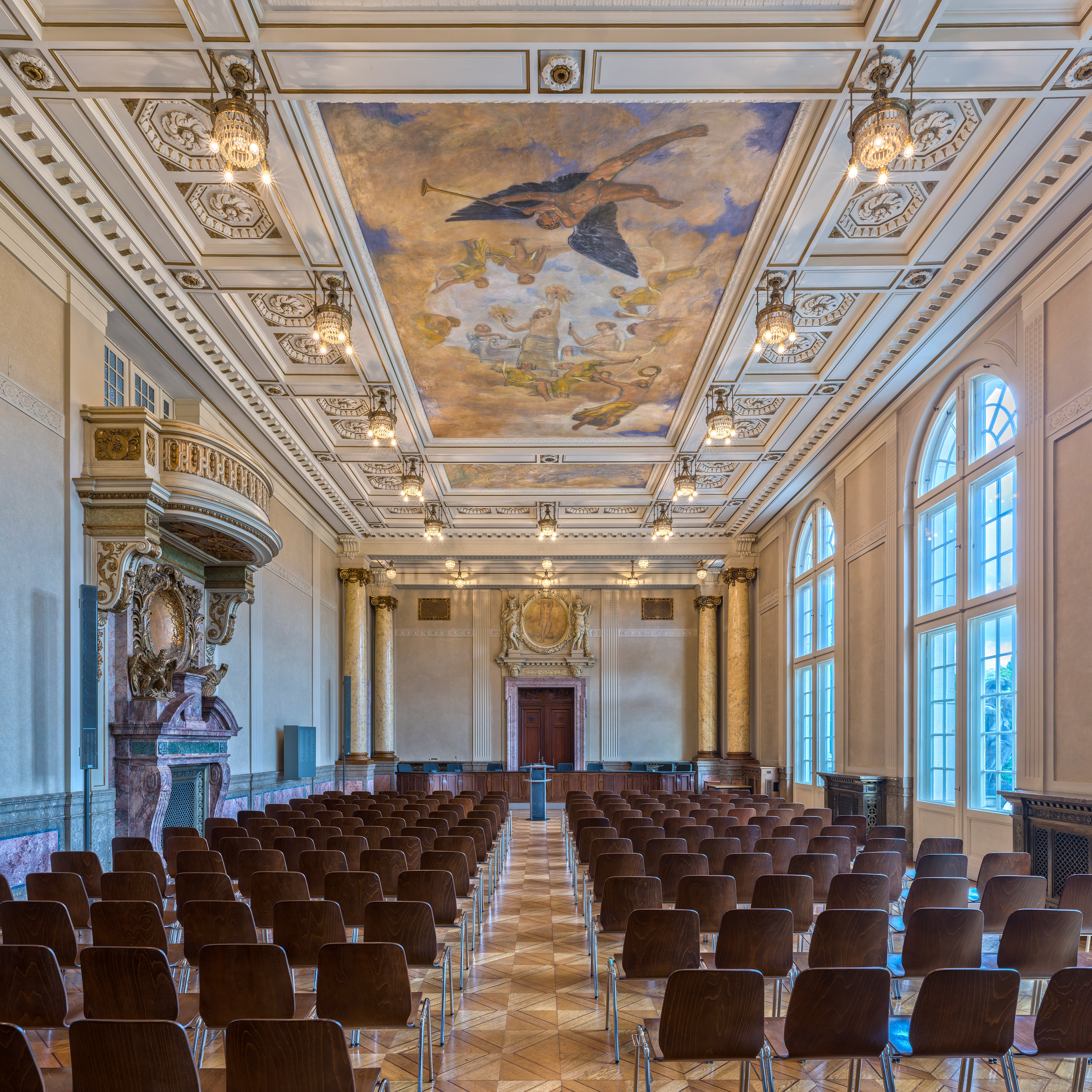 Plenarsaal (plenary hall) of Kammergericht (higher regional court) in Berlin-Schöneberg.This is a photograph of an architectural monument.